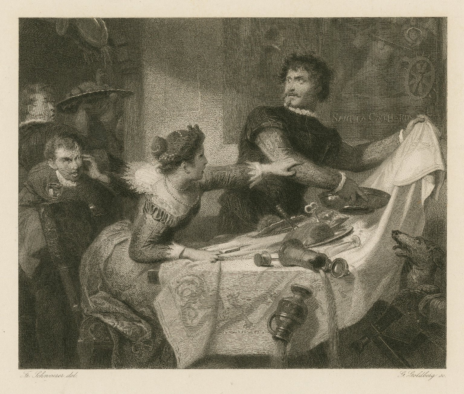 A mid-19th century print of Act IV, Scene i of The Taming of the Shrew: Petruchio rejects the bridal dinner.